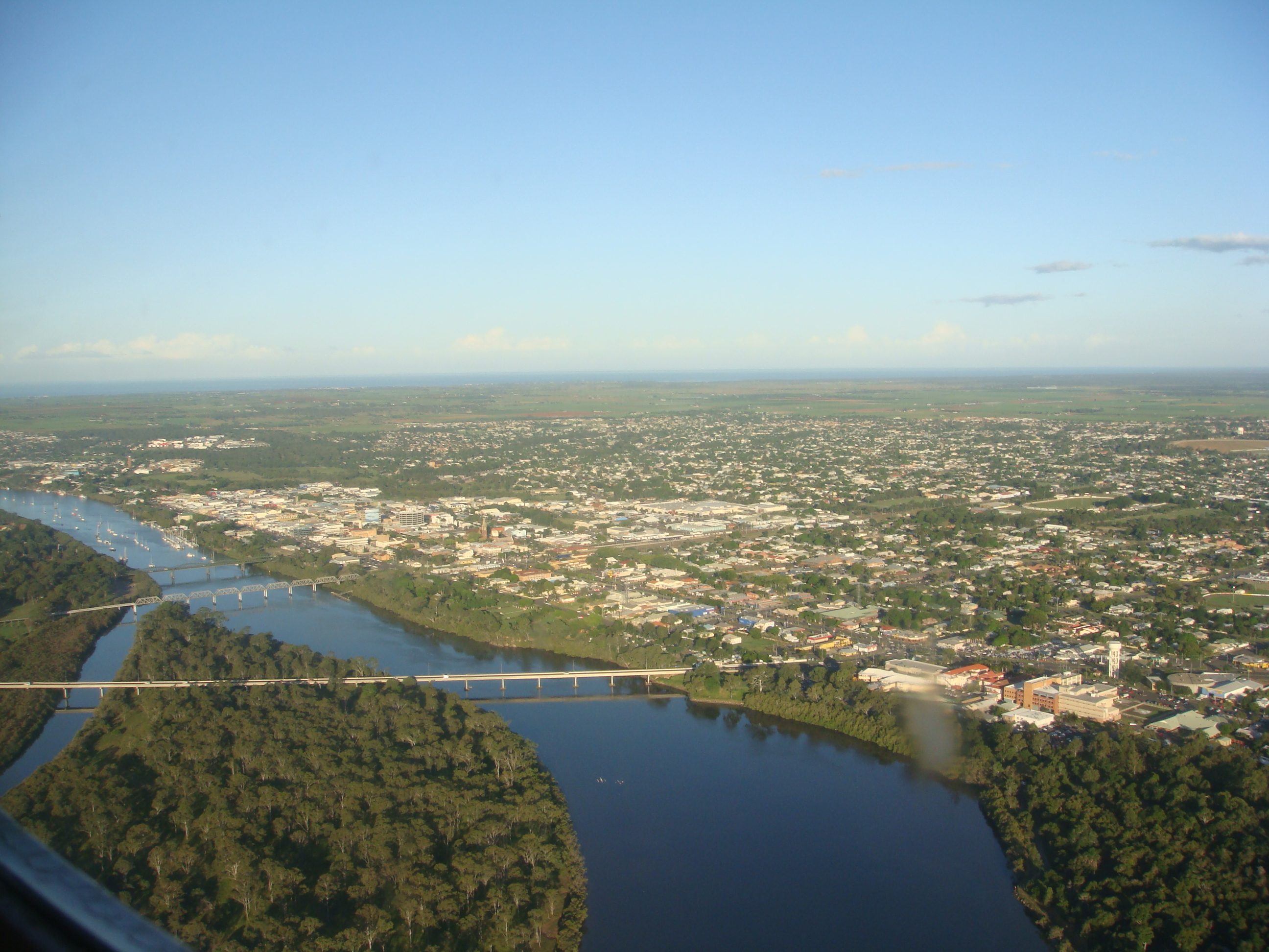 Picture of Bundaberg, Australia from the air. Taken by the uploader, and released into the public domain.